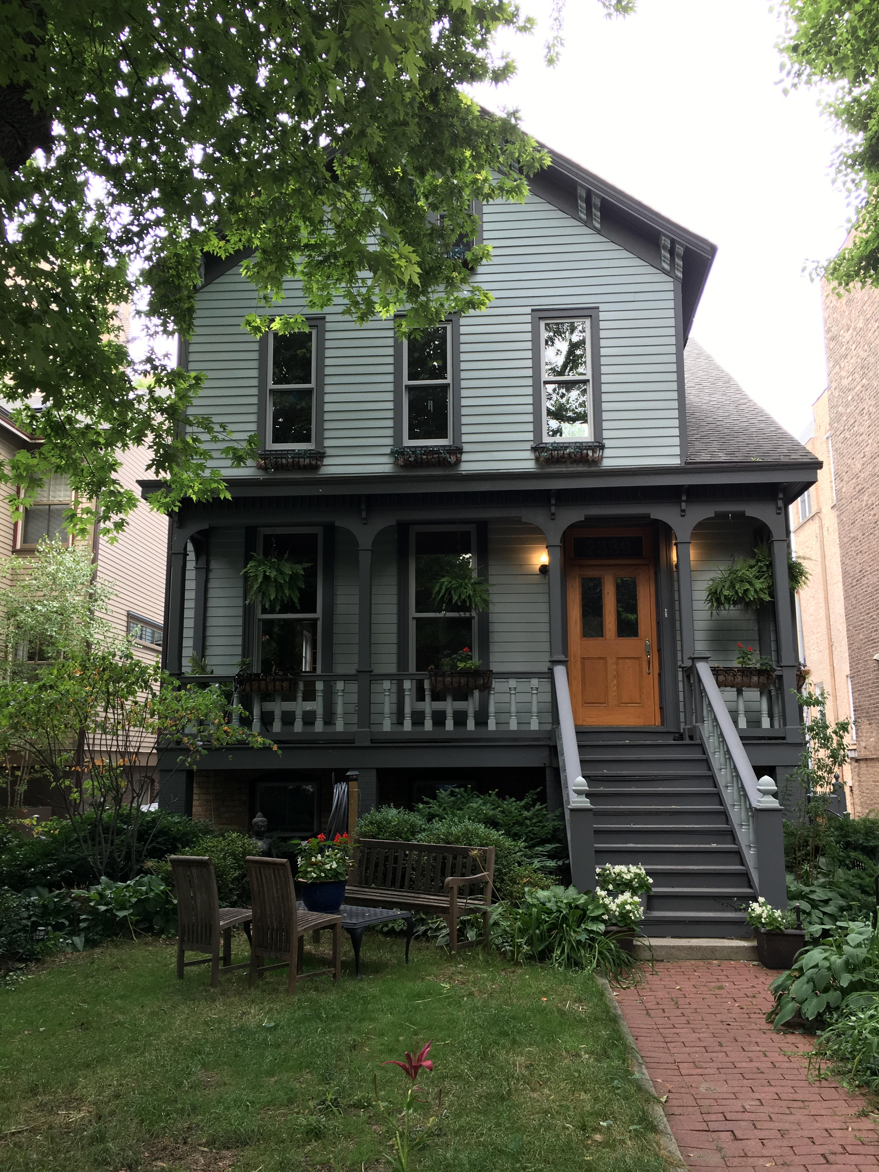 pre fire house in Chicago on Fullerton 2